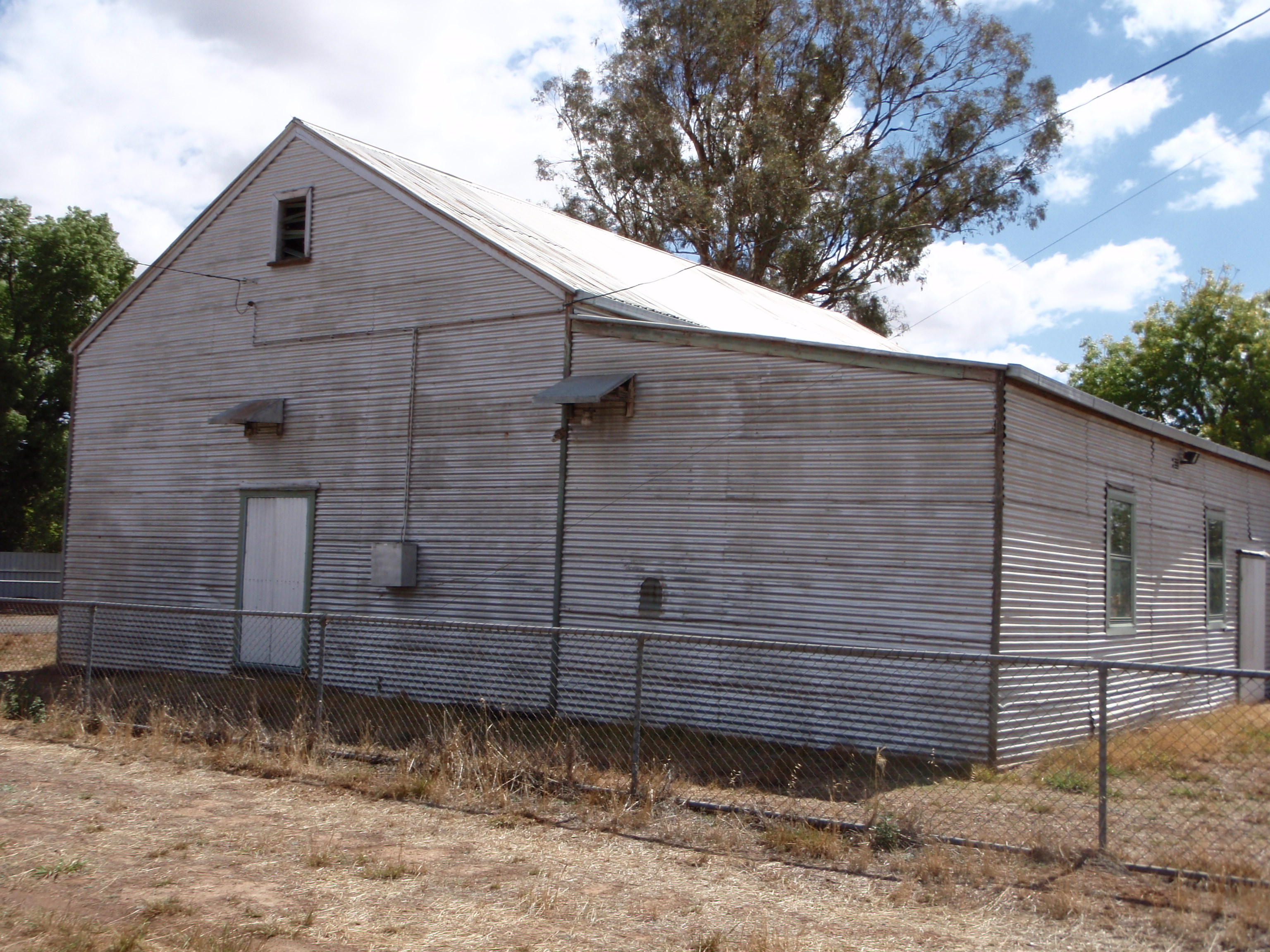 Little Billabong Community Hall